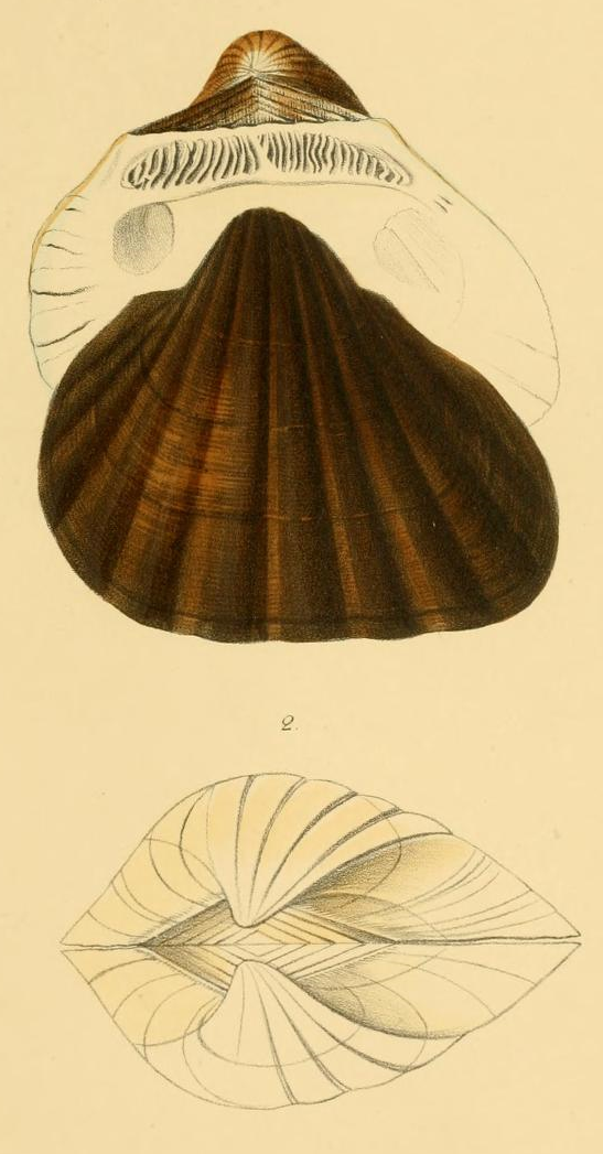 Senilia senilis (Linnaeus, 1758), Arcidae, Bivalvia, Japan, from Kobelt, 1891 pl 9 figs 1 + 2